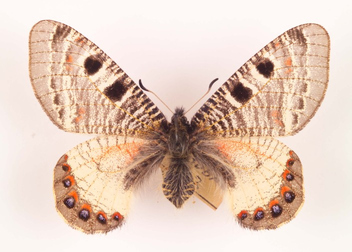 Archon apollinus (Herbst, 1798)